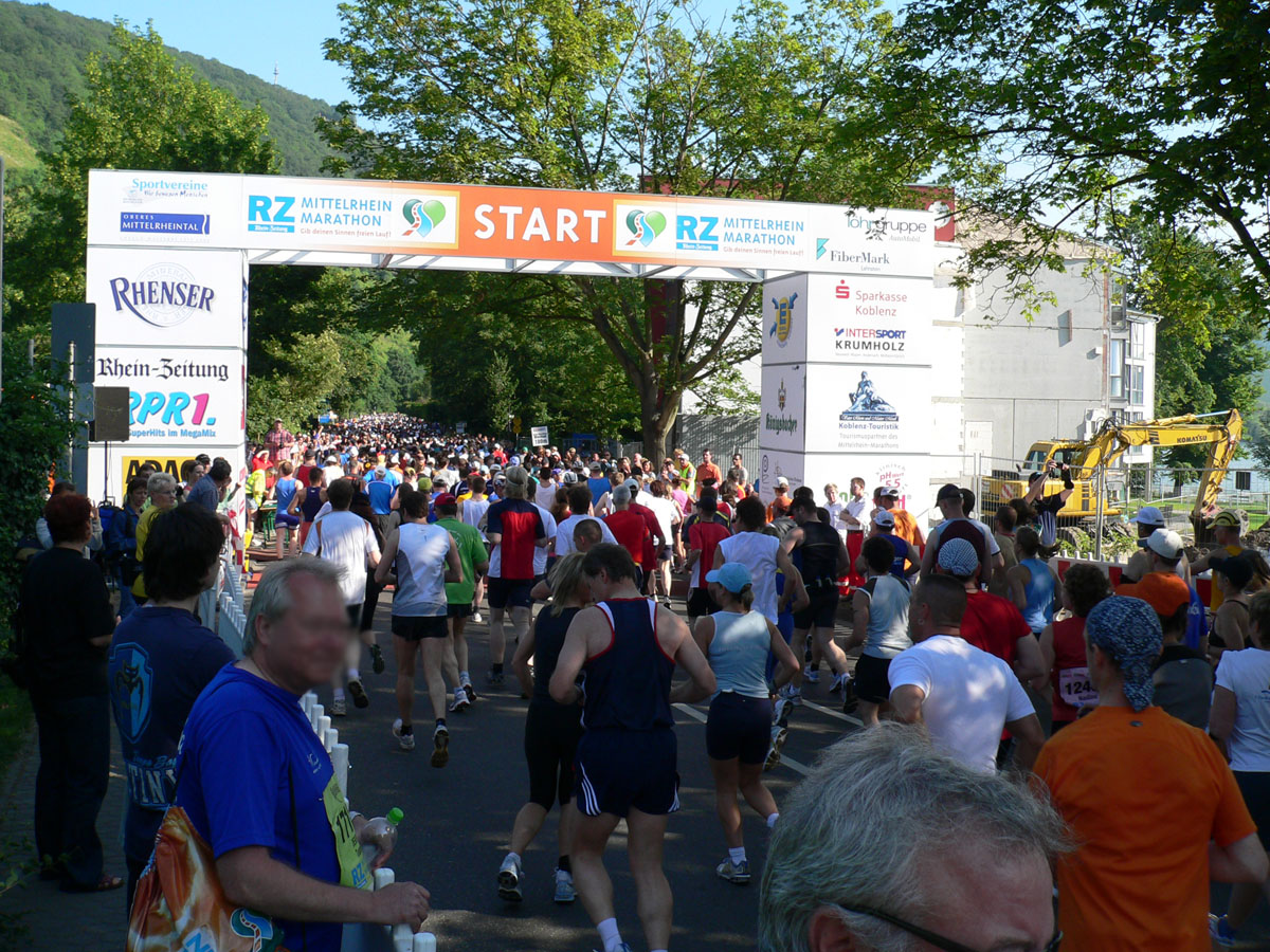 Shortly after the start of the half marathon (Boppard) at Mittelrhein Marathon 2006.